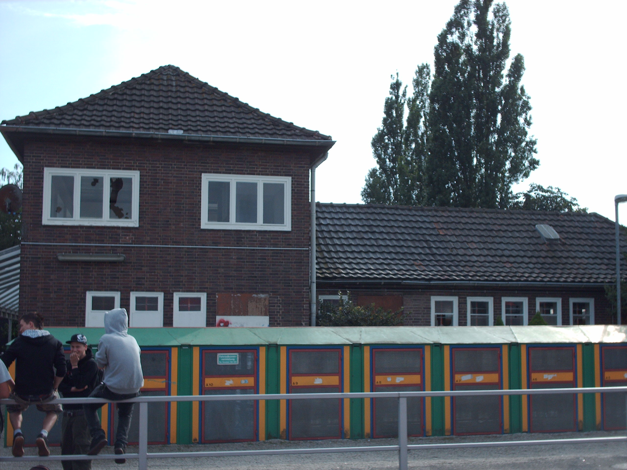 Kevelaer station, Kevelaer, Germany check usage